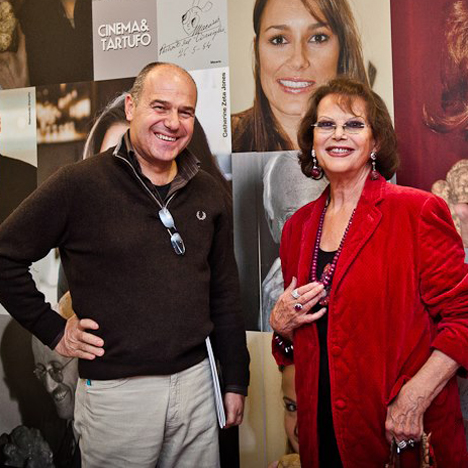 The actress Claudia Cardinale and the writer Giordano Berti at the inauguration of the exhibit "Cinema & Truffles" in Alba (Cuneo - Italy), november 2012. Photo by Stefania Spadoni